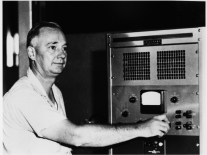 NRAO Archives - Grote Reber - photo Source NRAO, US Gov't funded agency